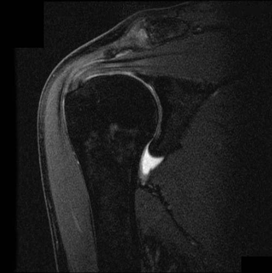 Subacromial impingement with partial rupture of the supraspinatus tendon. However, no retraction or fatty degeneration of the supraspinatus muscle. Arthrosis of the acromio clavicular joint with capsule hypertrophy. This is an edited version of the source image made for use in the "Anatomist" iOS and Android app and shared here under the terms of the source image's Share Alike Creative Commons license.